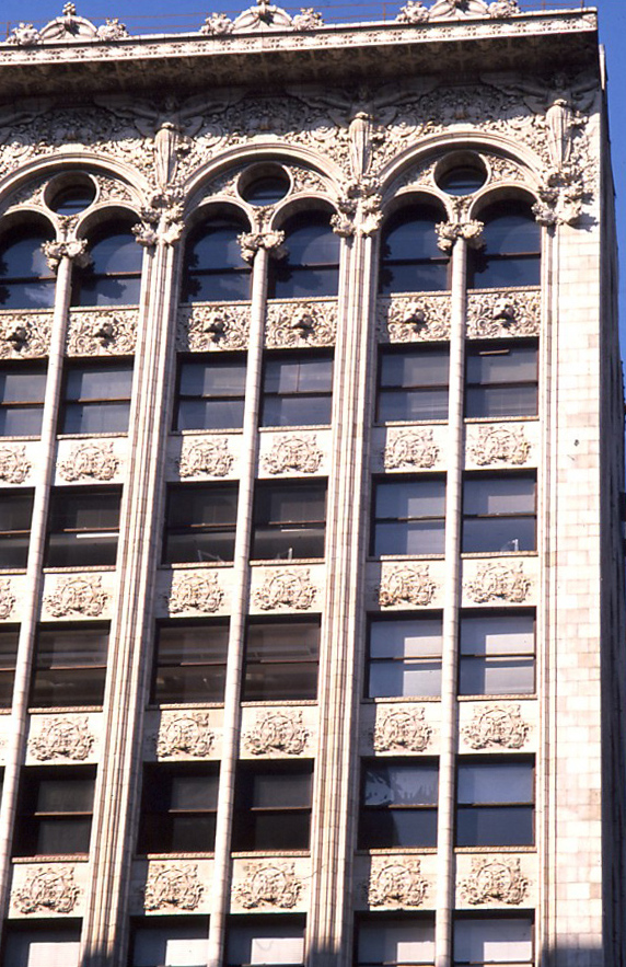 photo by Einar Einarsson Kvaran aka Carptrash 19:46, 21 April 2006 (UTC). 65 Bleecker Street.